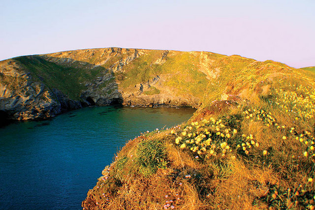 Beacon Cove, near to Trevarrian, Cornwall, Great Britain.